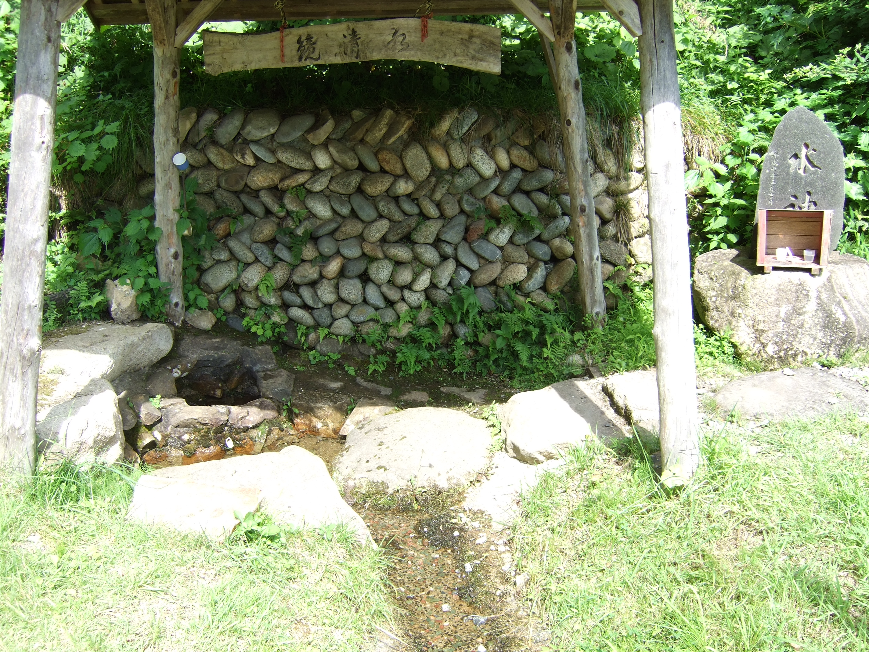 Kagami-simizu, the source of Siroisi river, Sitikasyuku, Miyagi, Japan.